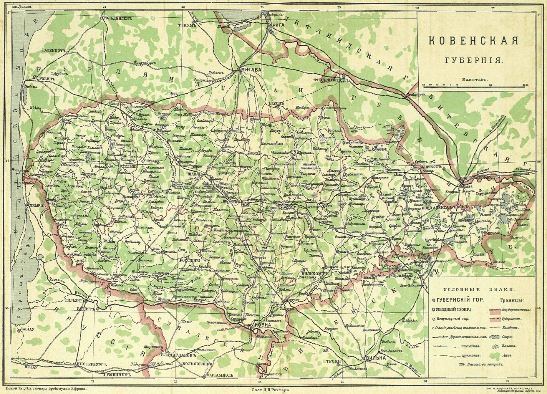 Kovno Governorate